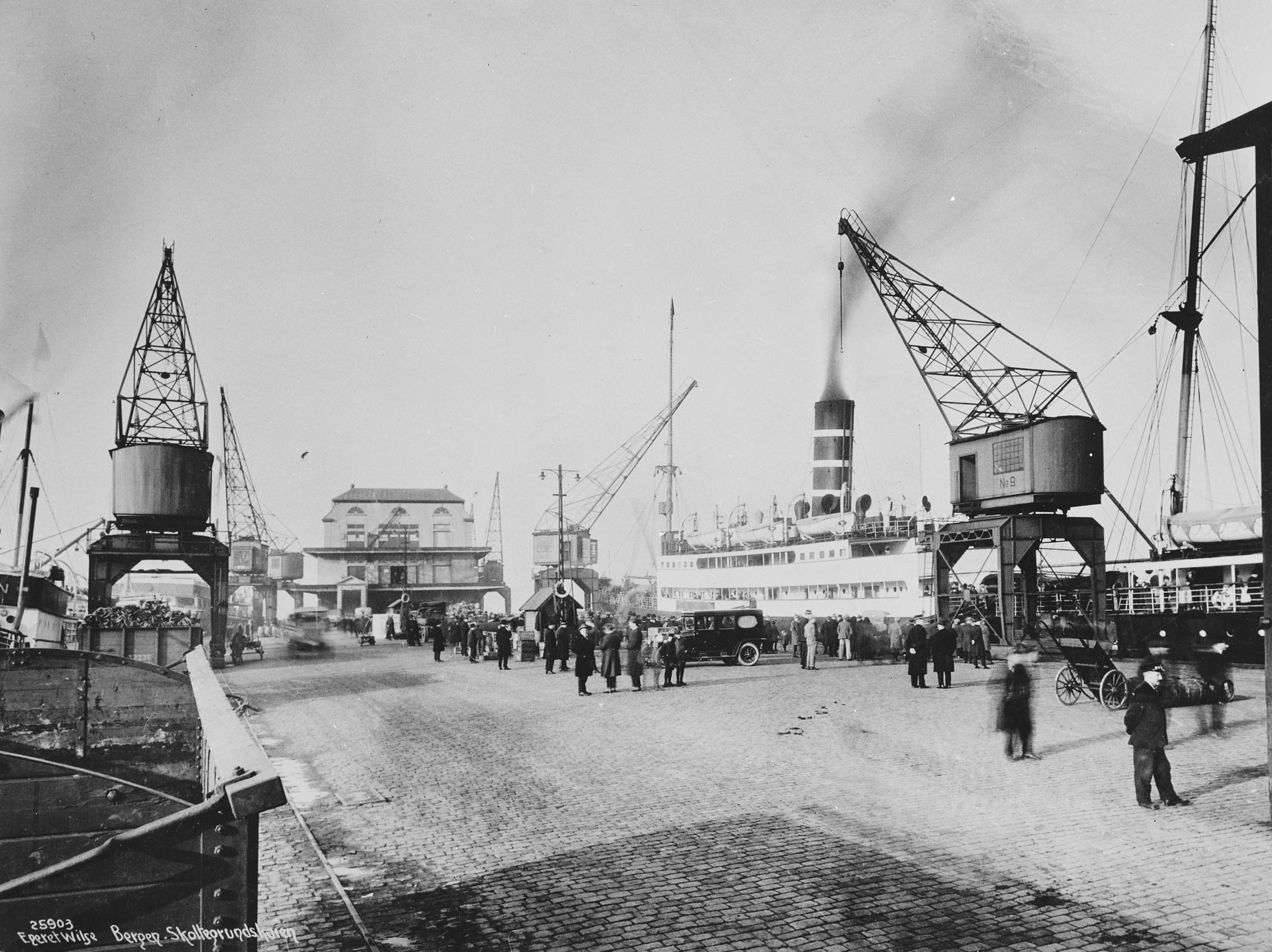 Norwegian turbine steamer Leda in Bergen, October 1925.